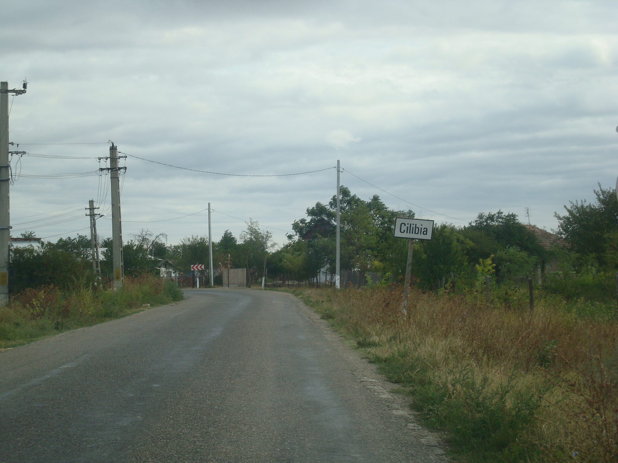 Entrance to Cilibia Commune, September 2008